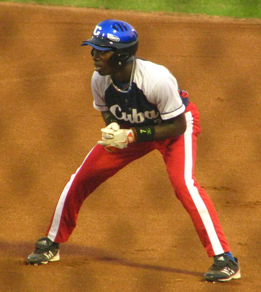 Randy Arozarena with the Cuban national baseball team at the 2013 18U Baseball World Cup in Taiwan